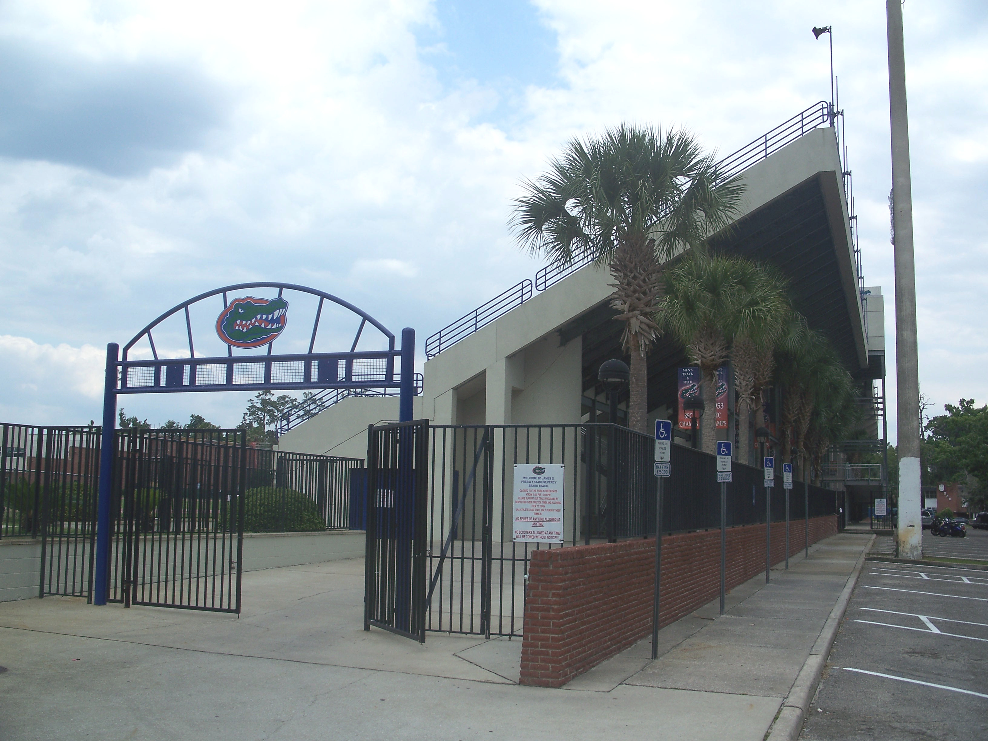 Gainesville, Florida: University of Florida: James G. Pressly Stadium: Bleachers